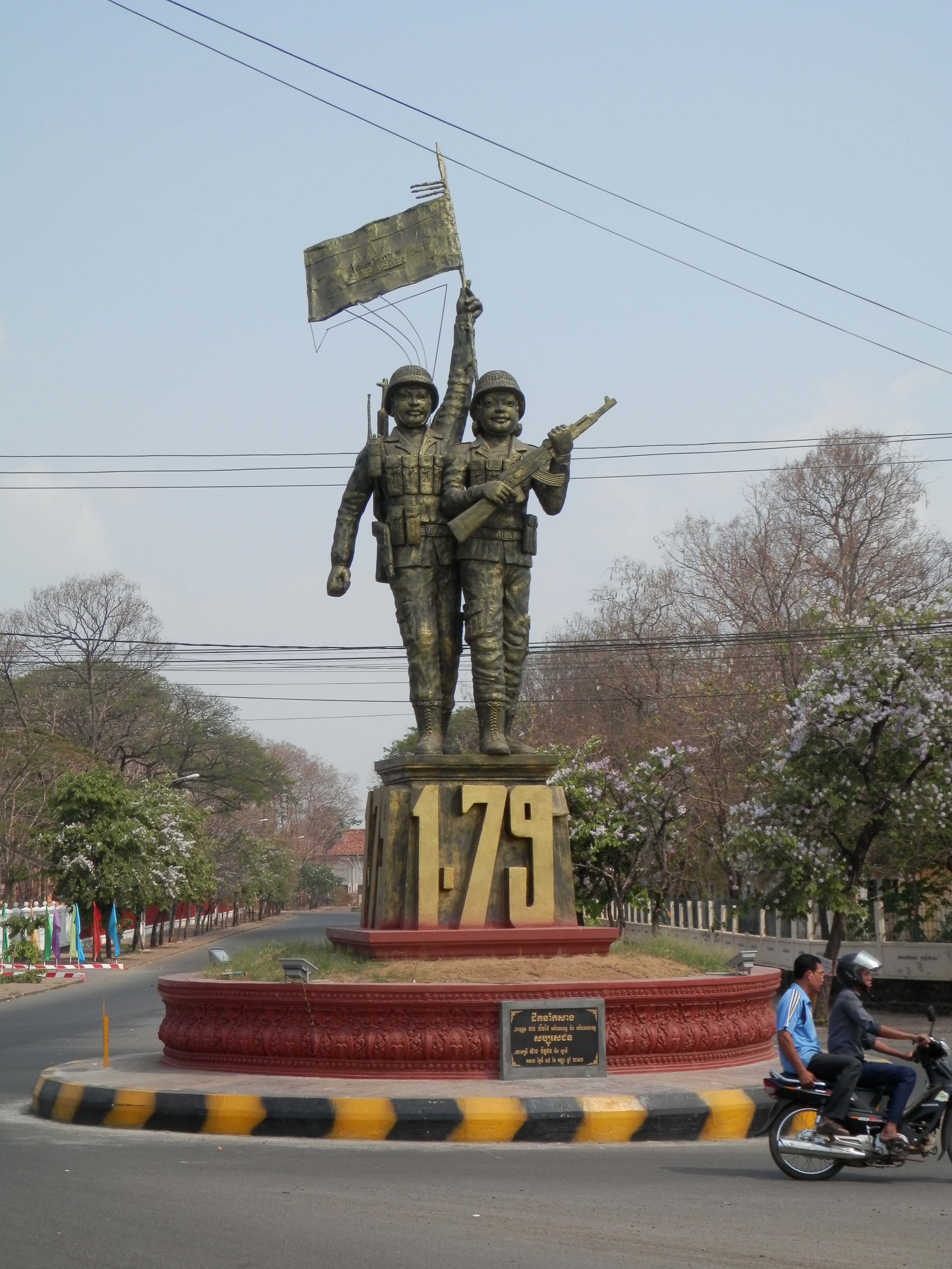 Roundabout Statue Celebrating the Overthrow of the Khmer Rouge by Vietnam